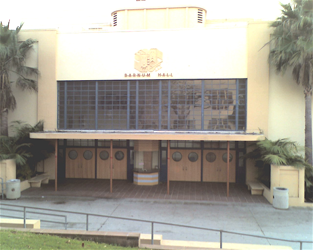 Barnum Hall Theatre of Santa Monica High School, Santa Monica, California. The Barnum Hall Theatre was built in 1938 through the Federal Works Project Administration (WPA) by the architectural firm of Marsh, Smith & Powell. [1 ] Built in the Streamline-Art Deco design, the hall also served as the Santa Monica Civic Auditorium when it was first built. [1 ]